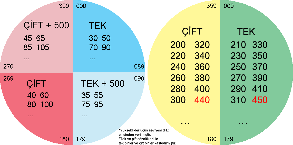 Quadrantal and semicircular rules for altitude/flight level selection